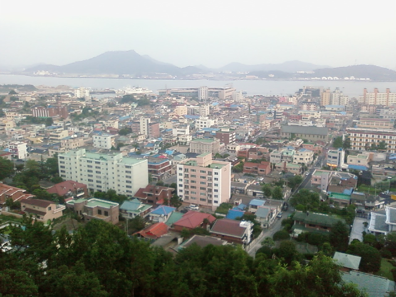 Korea Mopko